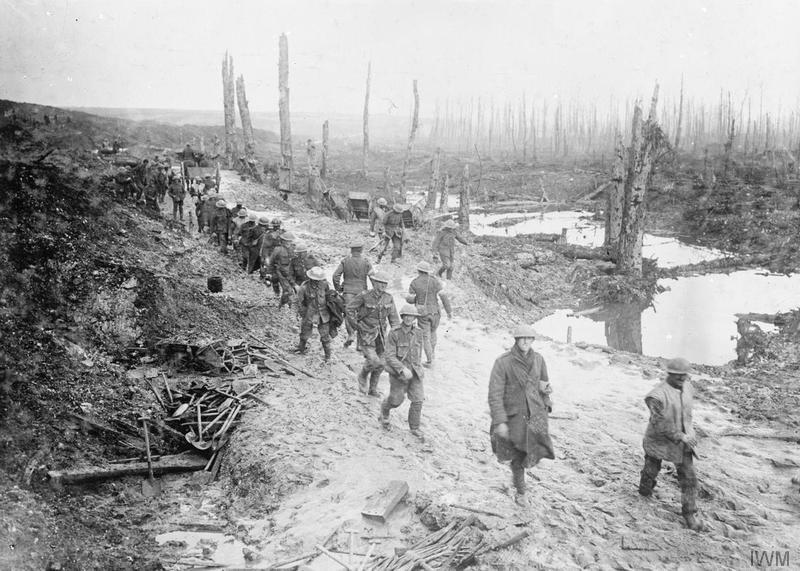 The Battle of the Somme, July-november 1916 British troops of the 17th (County of London) Battalion, London Regiment (Poplar and Stepney Rifles), 47th (2nd London) Division, crossing a muddy area in the Ancre Valley, October 1916.